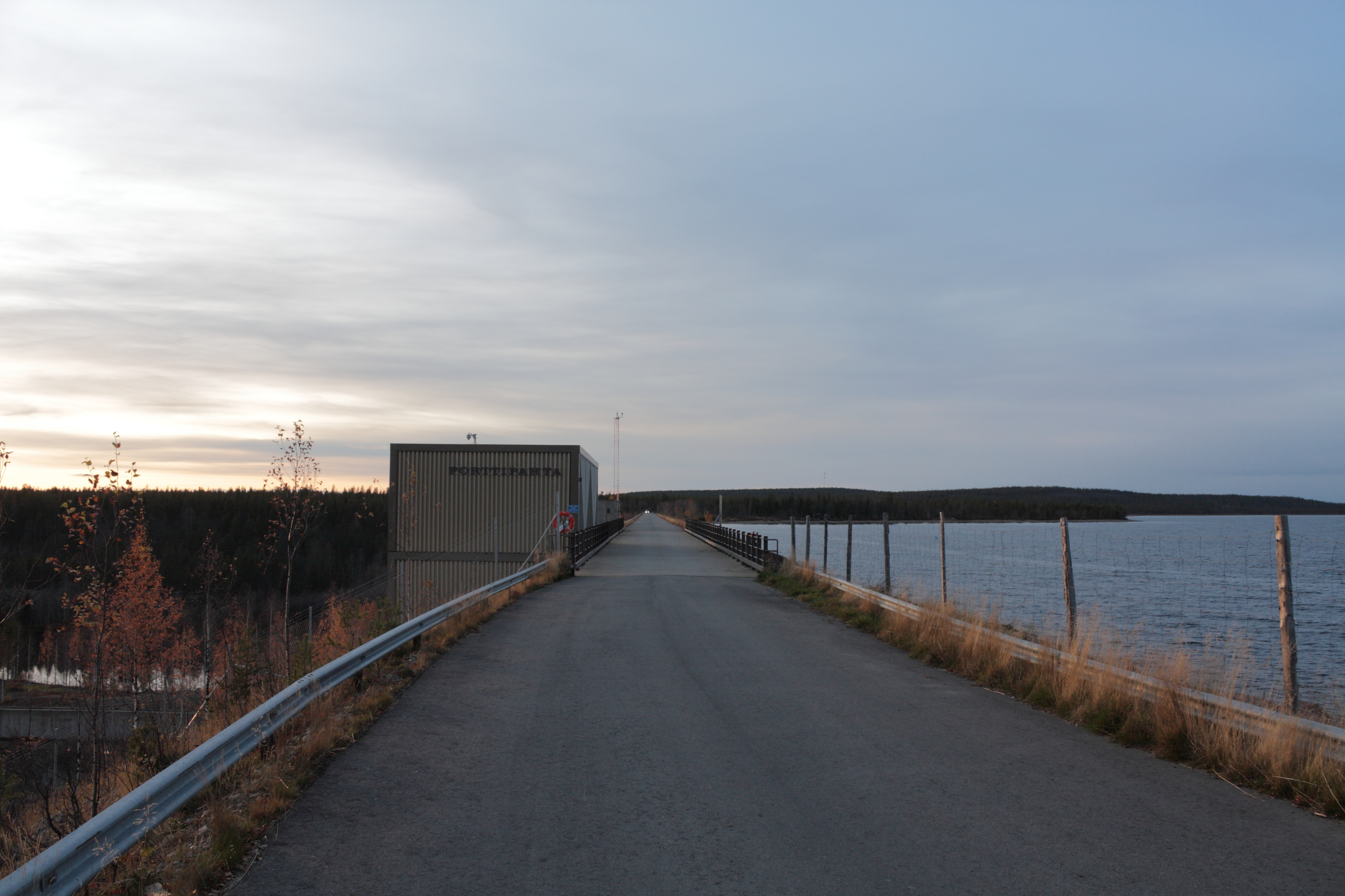 Porttipahta hydroelectric power plant and the dam that controls the Porttipahta reservoir in Sodankylä, Finland.